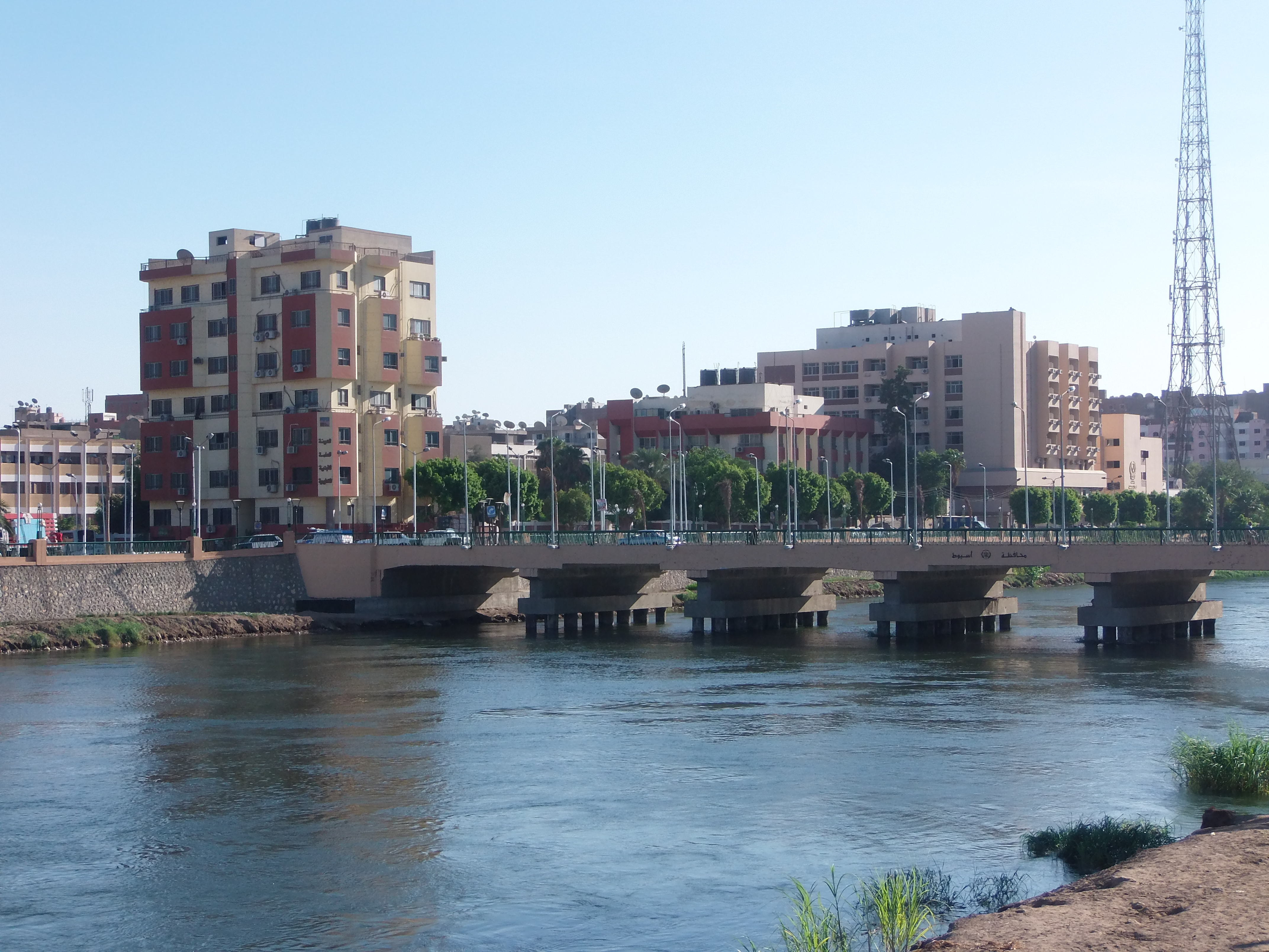 January 25th Bridge كوبري 25 يناير